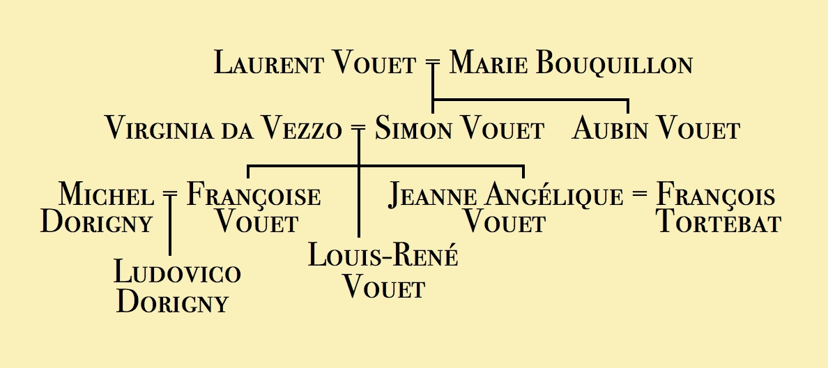 Family Tree of the French artist Simon Vouet (1590-1649).